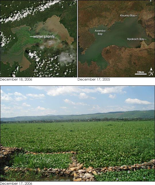 Water Hyacinth invasion in Lake Victoria